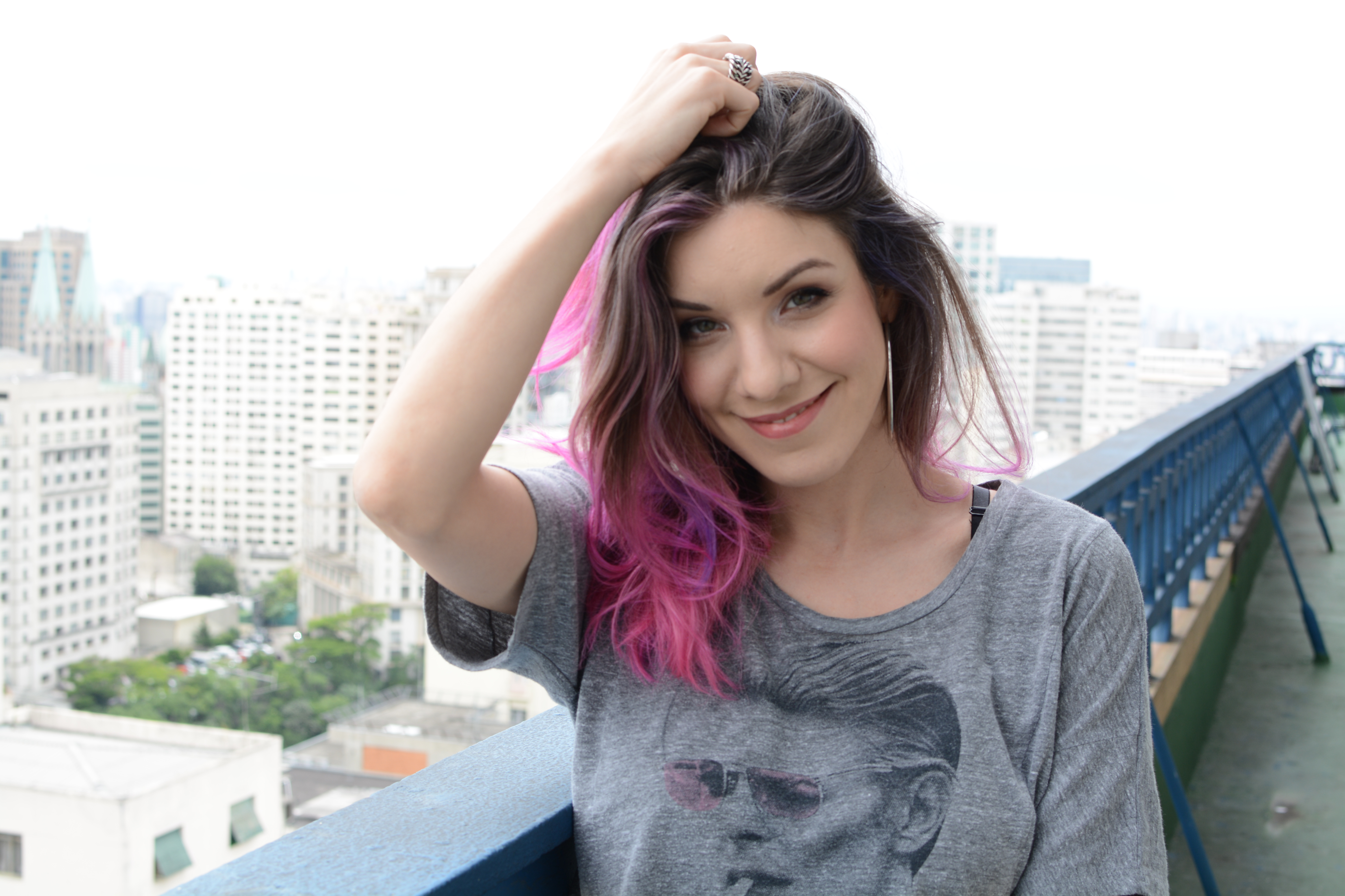 MariMoon